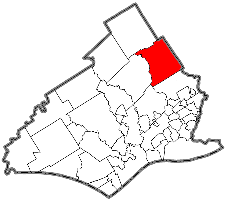 Showing the location within Delaware County, Pennsylvania.